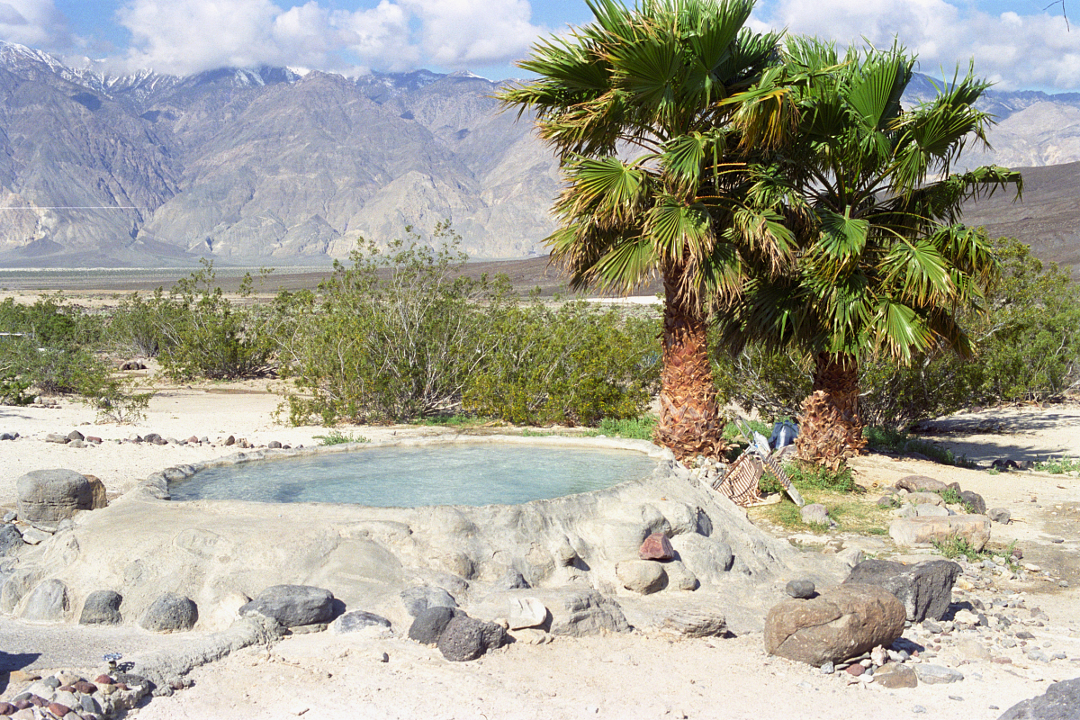 Palm Spring and desert wetlands in the Saline Valley, and the. In Death Valley National Park, Inyo County, eastern California.